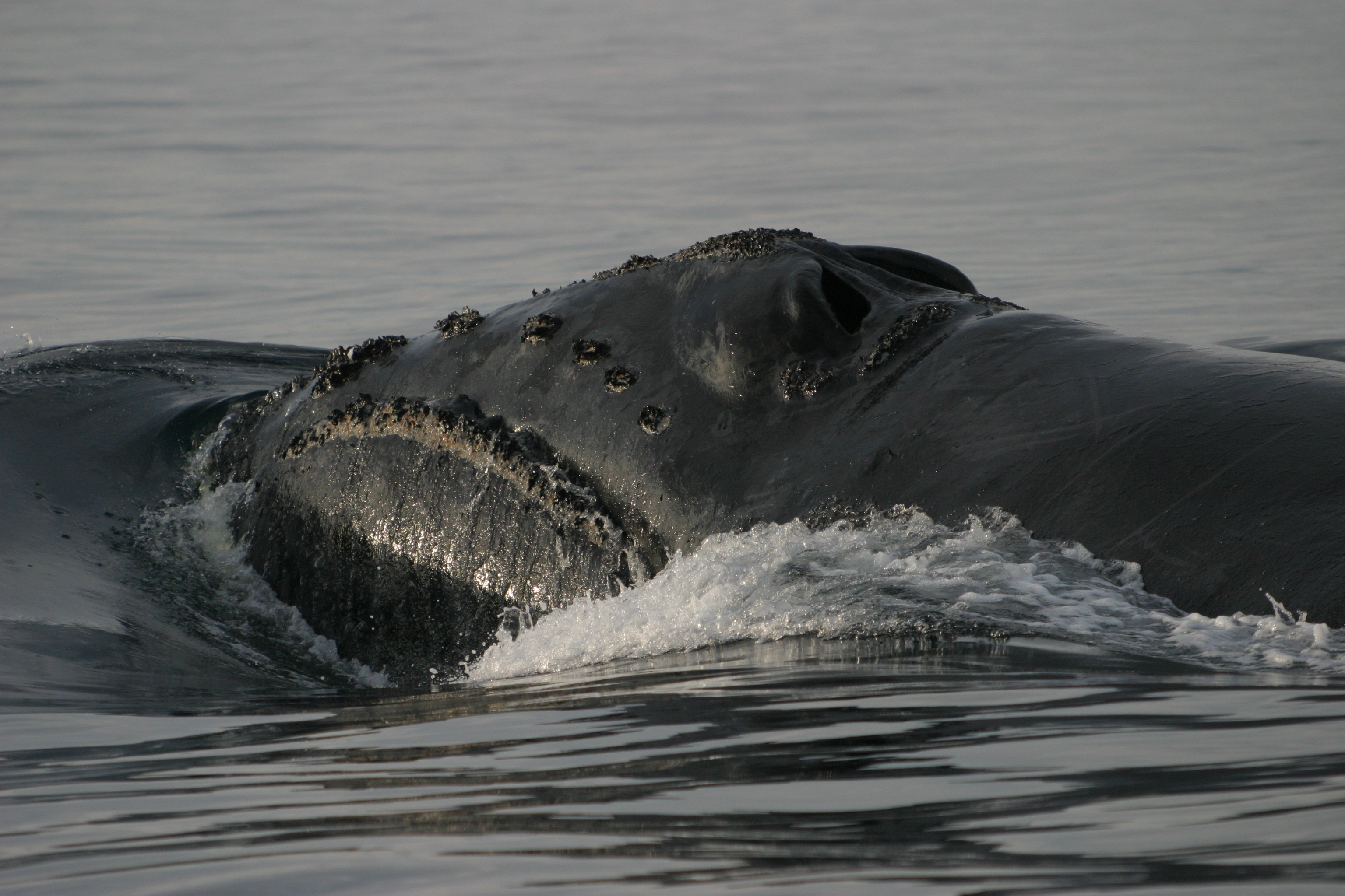 North Pacific Right Whale (Eubalaena japonica)